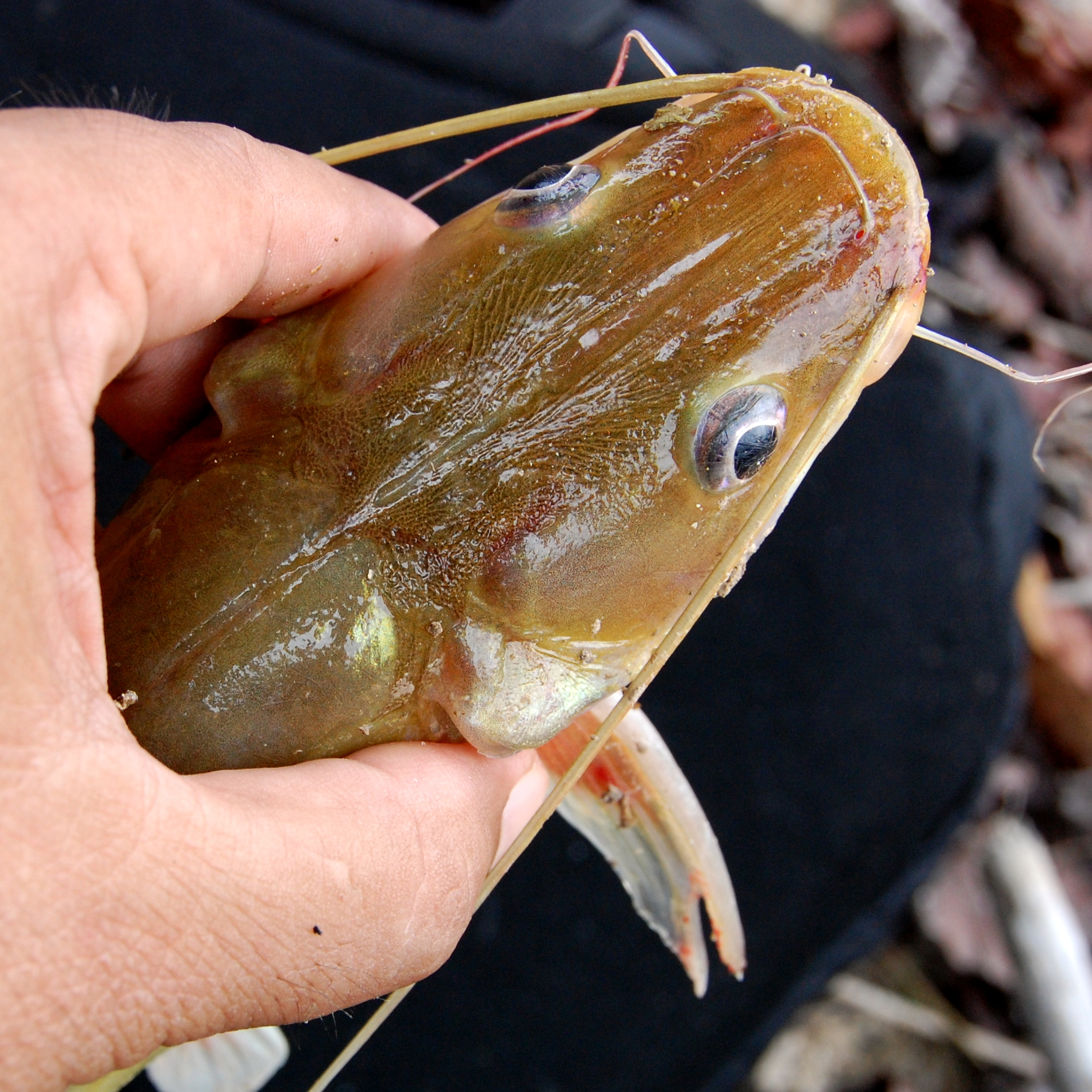 Hemibagrus capitulum, 205mm SL. Head close up. From Upper Seruyan, Central Kalimantan, Indonesia.